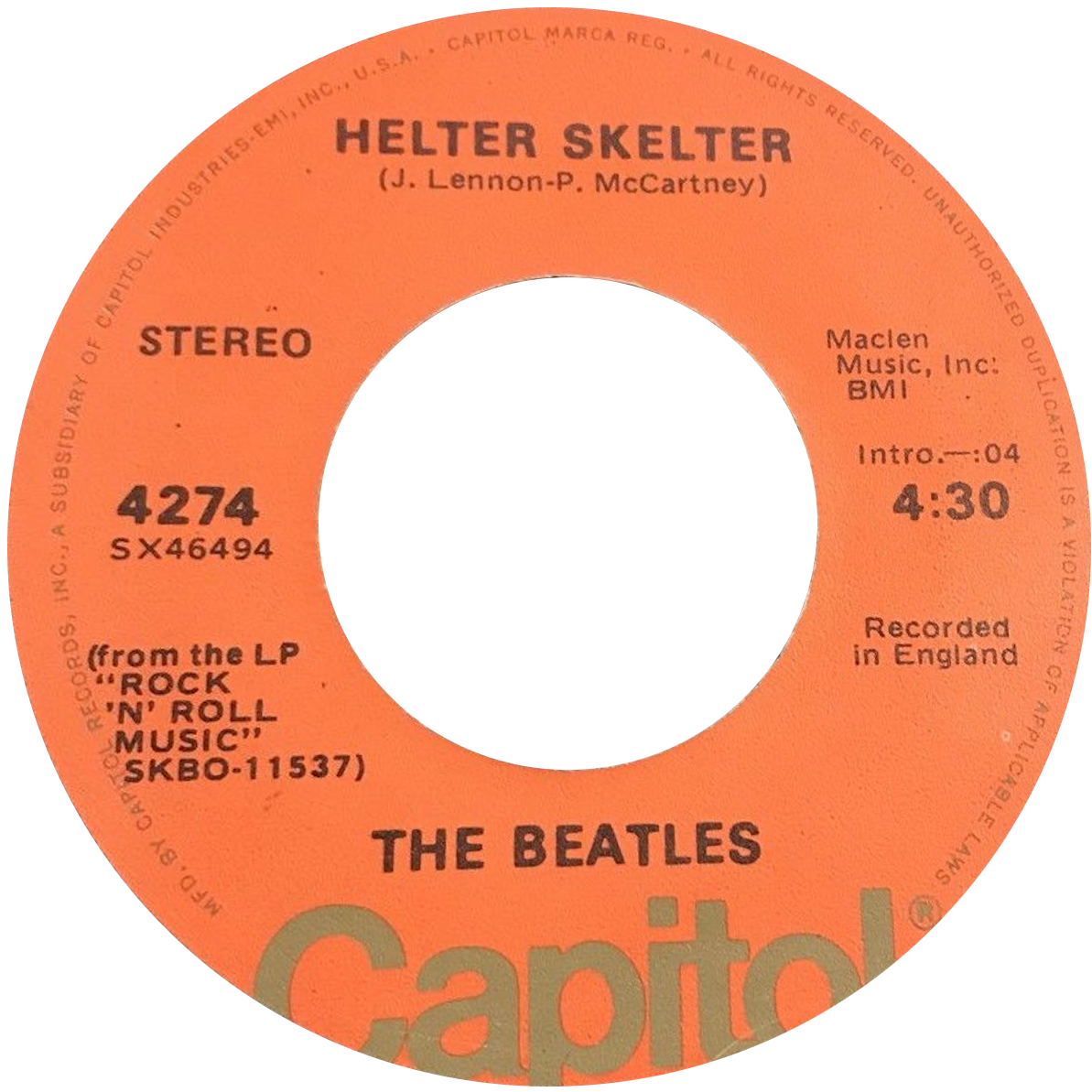 One of side-B labels of the US vinyl single "Got to Get You into My Life" (from album Revolver) by The Beatles. The single's B-side track is "Helter Skelter" (from the band's self-titled album, aka the "White Album")